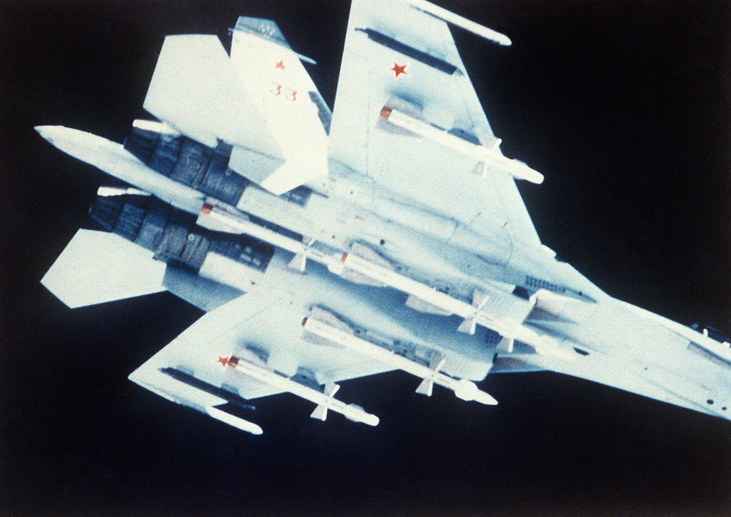 An underside view of a Soviet Su-27 Flanker aircraft carrying AA-10 Alamo missiles. Date Shot: 26 Aug 1988